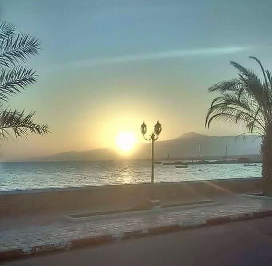 A photo of Tadjoura beach at sunset.